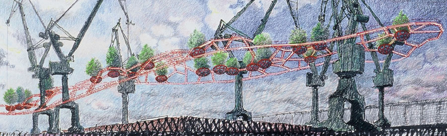 Stocznia Gdanska Landscape Park